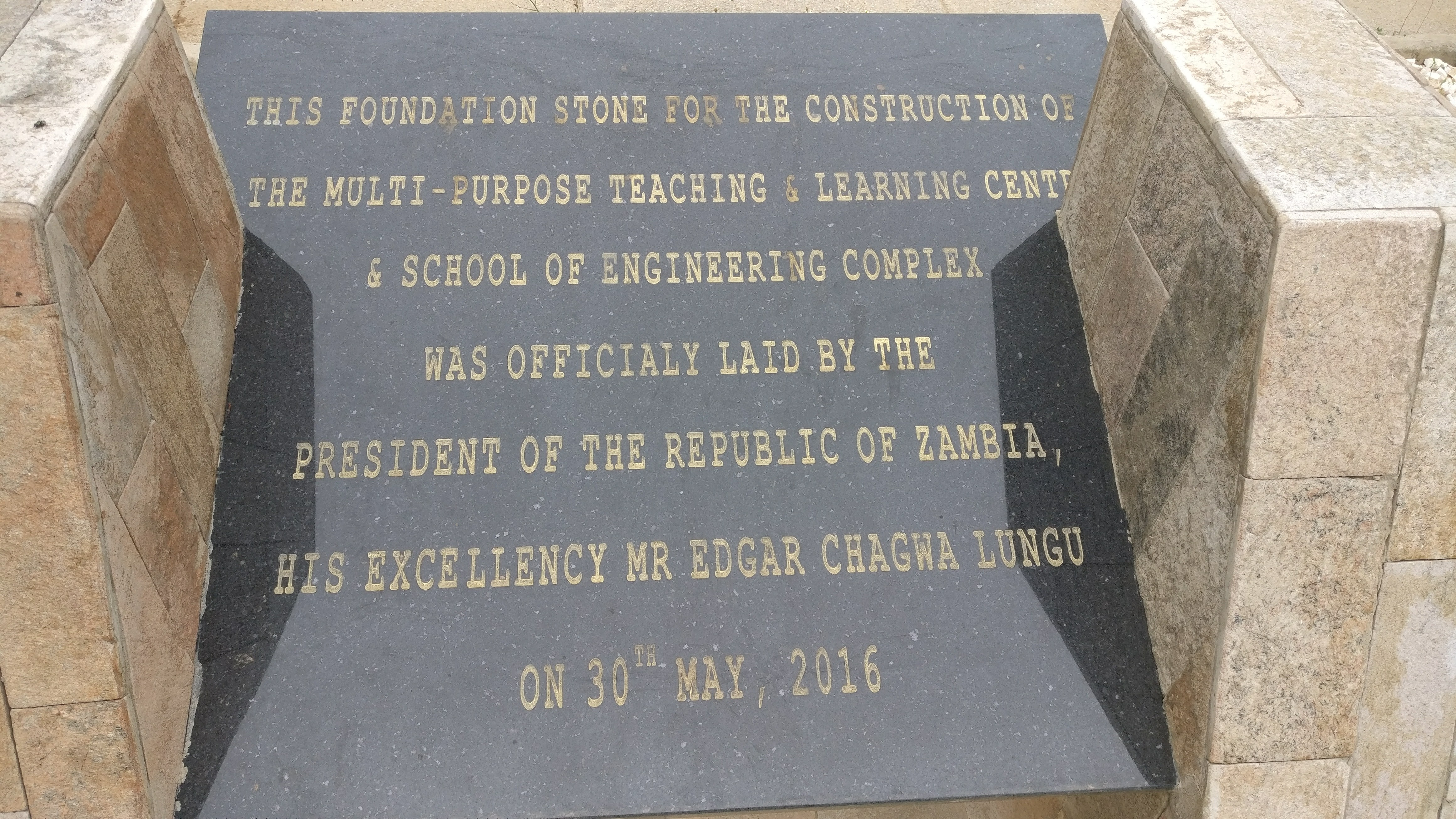 University of Zambia Multi-Purpose Teaching and Learning Centre foundation stone laid by His Excellence Edgar Chagwa Lungu